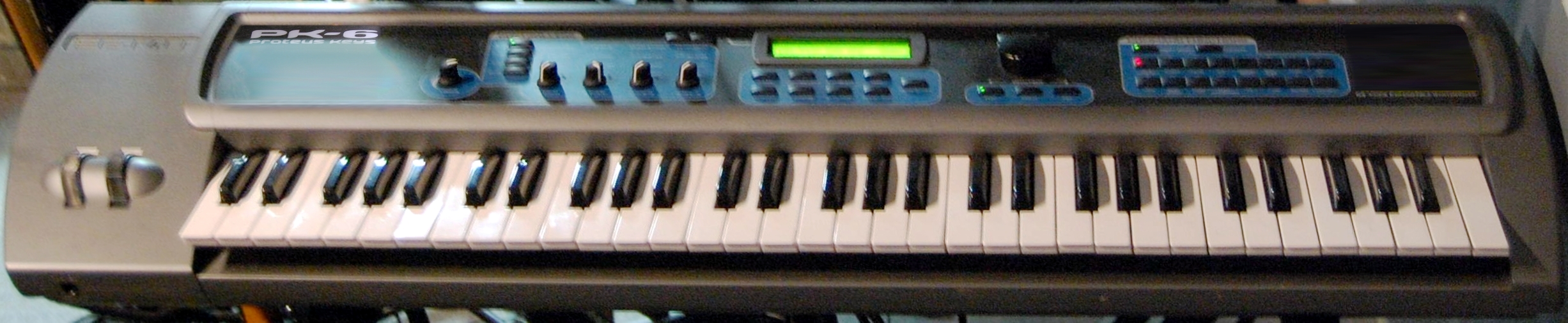 E-mu PK-6 Proteus Keys (Pop/Rock) [1]